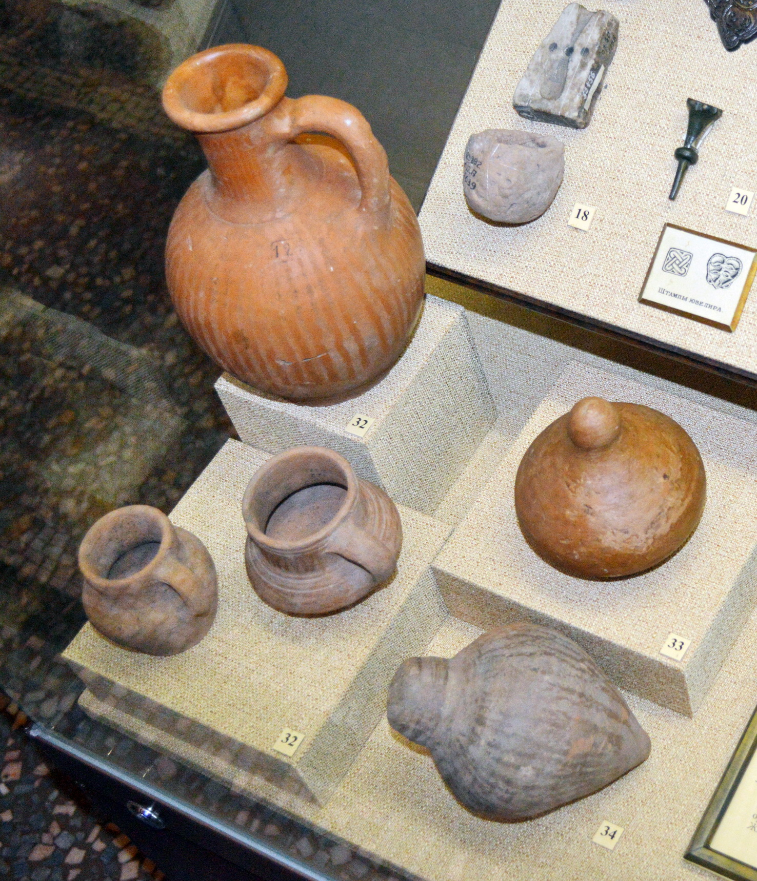 Jug, crocks, money box, vessel for liquids. Clay. Volga Bulgaria, 10-14 c.